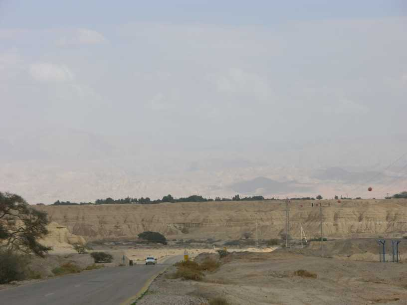 Idan